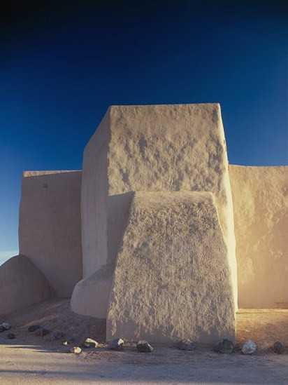 Mission Church of Ranchos de Taos nave — at Ranchos de Taos, New Mexico. The colonial era Spanish mission is on the National Register of Historic Places in Taos County. 1980 image courtesy of the federal HABS—Historic American Buildings Survey of New Mexico project (cropped).